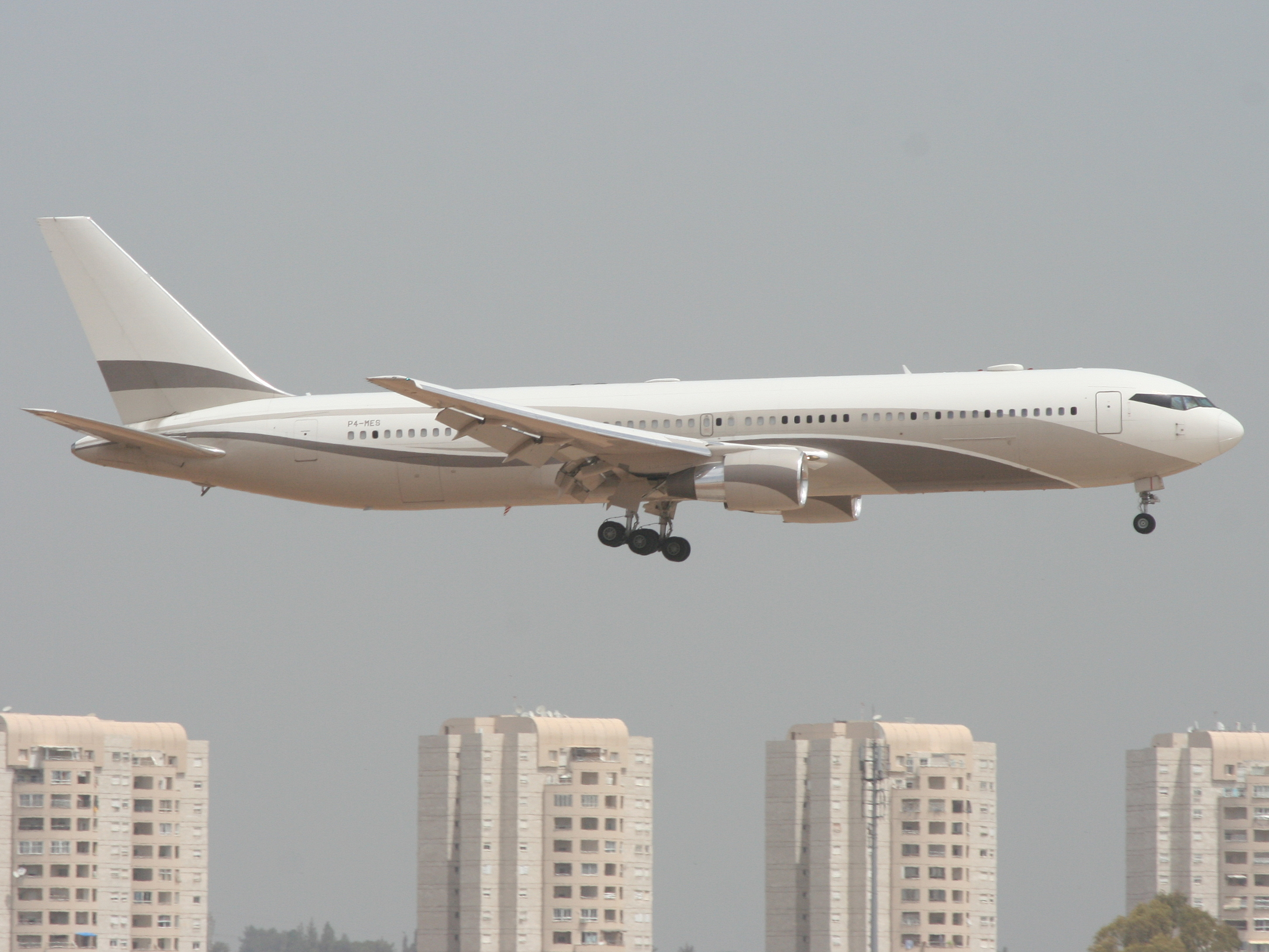 At Ben Gurion International airport